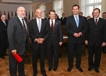 Secretary Chertoff, signed on behalf of the U.S. Government a Memorandum of Understanding on the United States Visa Waiver Program and Related Enhanced Security Measures. The memorandum is an essential element in the path to Latvia’s admission to the Visa Waiver program. The signing took place at the Latvian Ministry of Foreign Affairs and Foreign Minister Maris Riekstins signed on behalf of the Government of Latvia. While at the Foreign Ministry, Secretary Chertoff met with Prime Minister Ivars Godmanis. Later, he met with Latvian President Valdis Zatlers at Riga Castle. US Ambassador Charles Larson accompanied Secretary Chertoff during his visit.